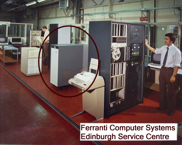 Burroughs B-475 disk drive at Ferranti Computer Systems Service Centre in Edinburgh 1980. Pictured are Leo Capaldi nearest camera and Charlie Turnock.